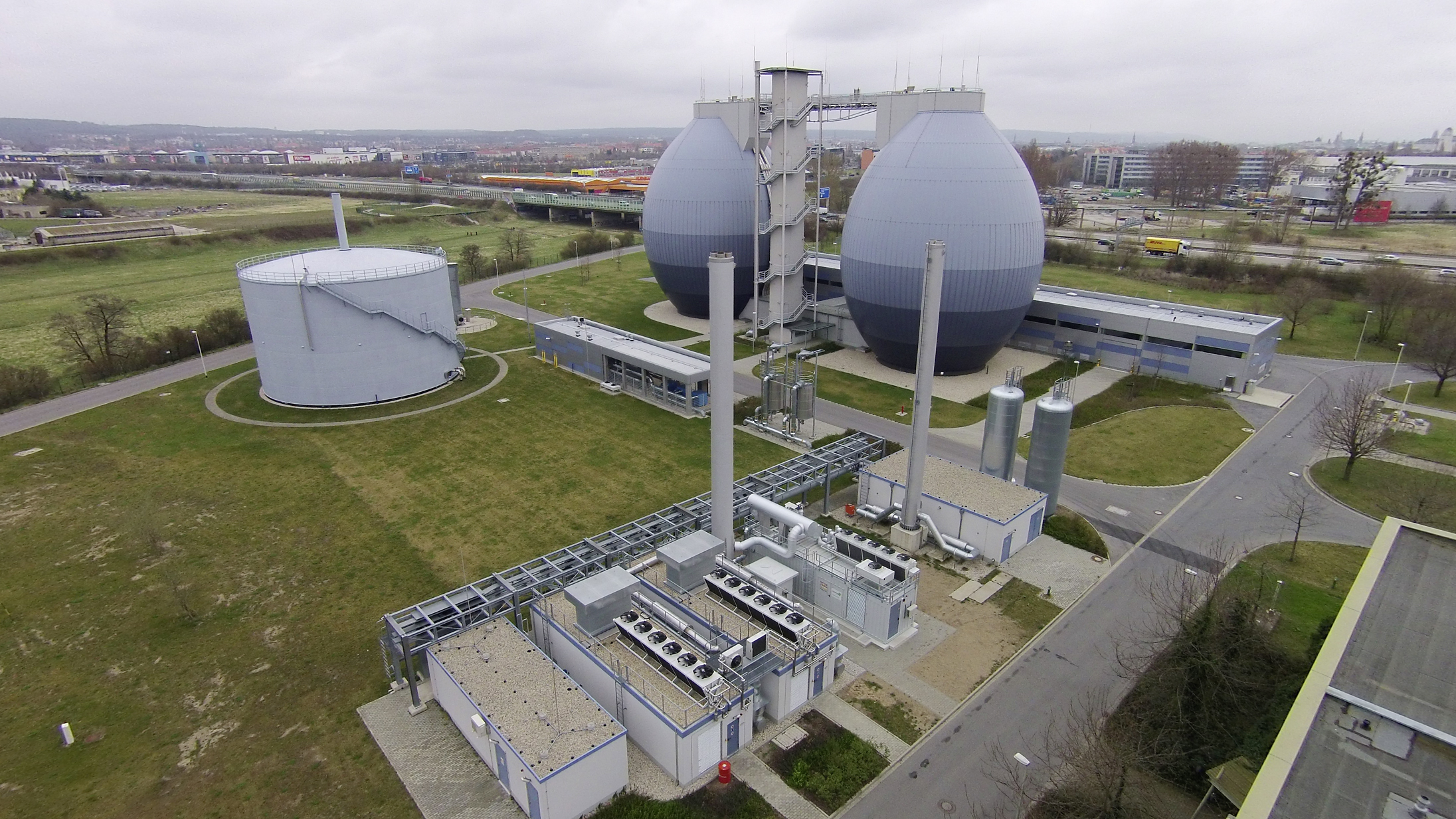 Wastewater treatment plant in Kaditz, Dresden (Germany). A view of the digestion plant at site B, with the federal highway in the background.